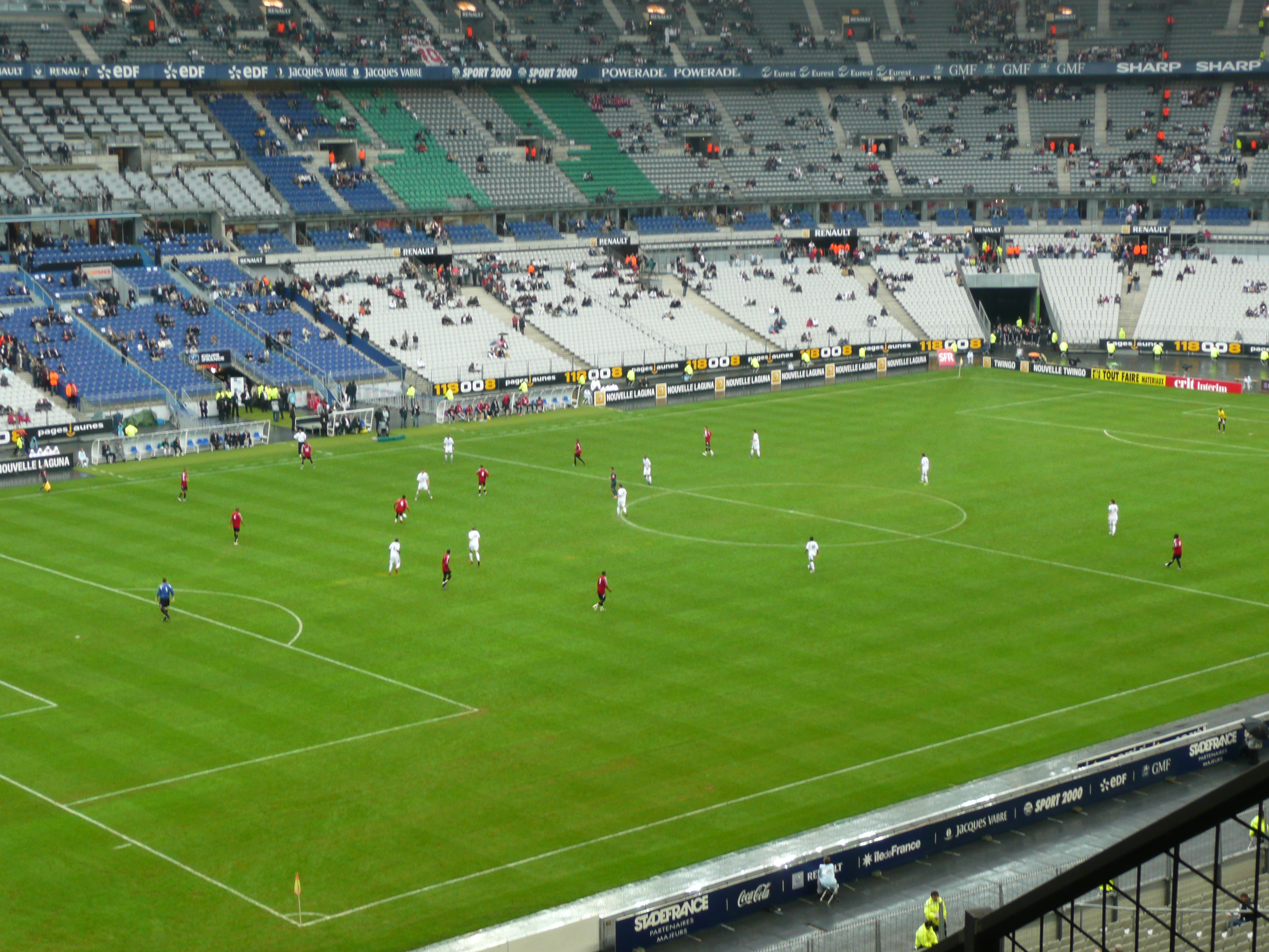 The 2007-2008 Coupe Gambardella final between the Stade rennais and the Girondins de Bordeaux (3-0)